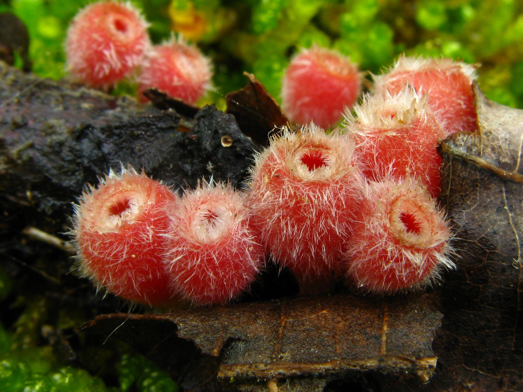 The fungus Microstoma floccosum (spelled in the source as the orthographic variant floccosa). Photographed in Sharp Mountain Preserve, Jackson Co., AL, USA.